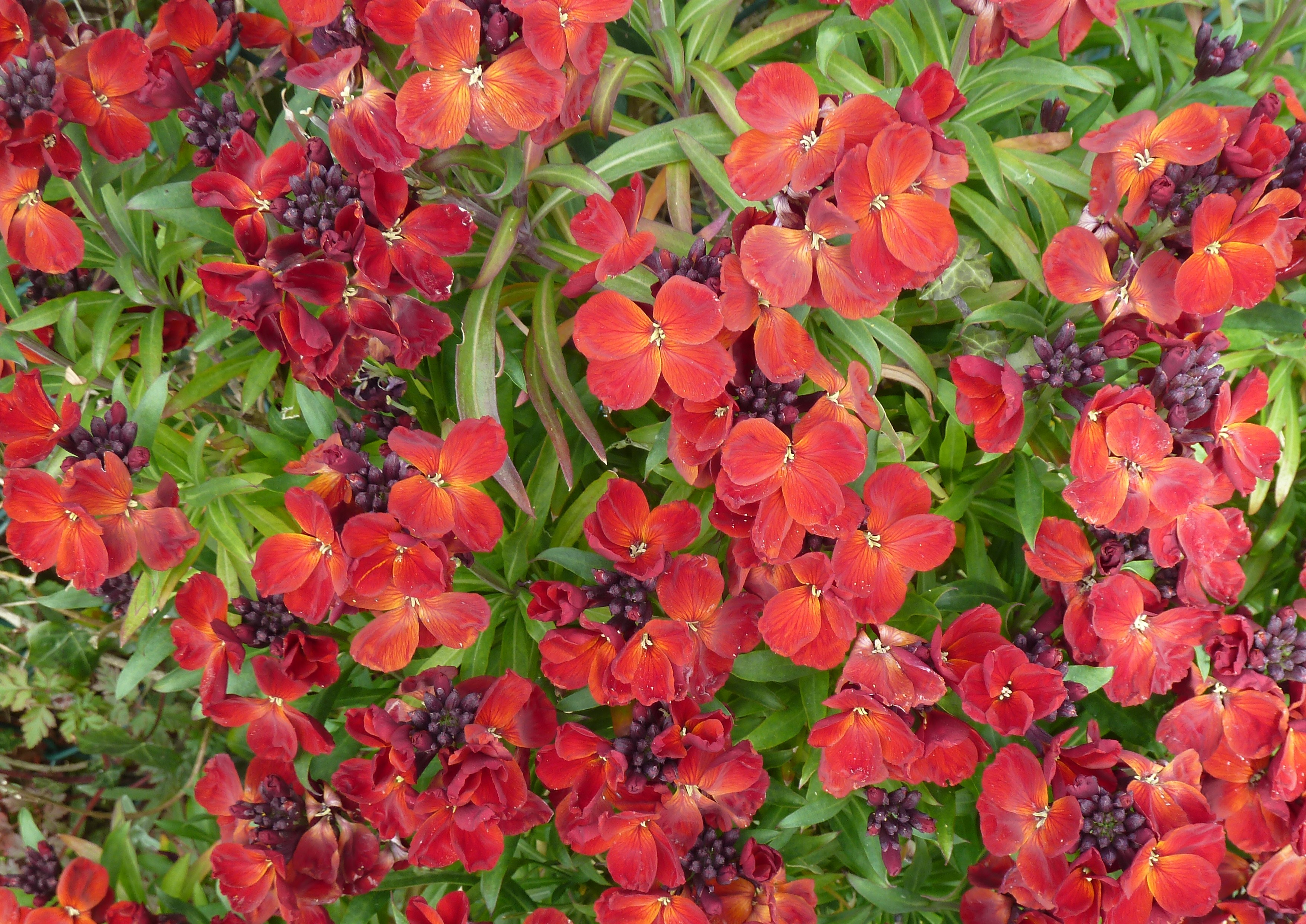 Erysimum cultivar Hilden, Co. Antrim, Ireland April